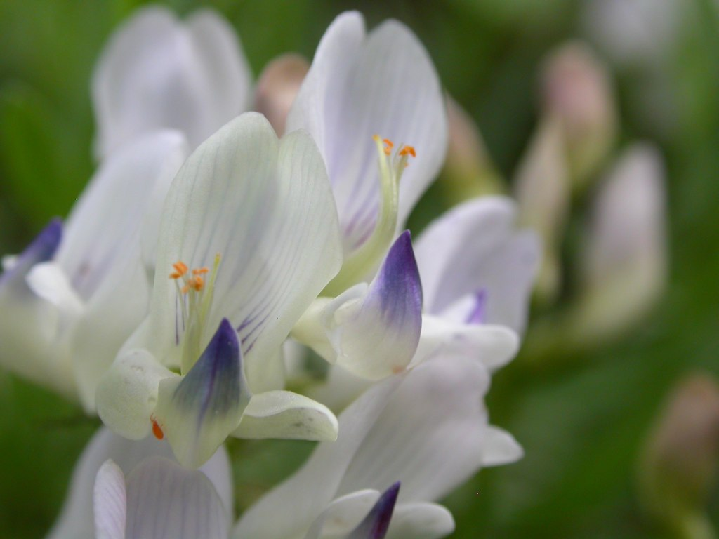 The purplish pointed keel tip is distinctive. Here the stamens and anthers have seemingly popped out of the keel possibly during visitation by a pollinating insect.